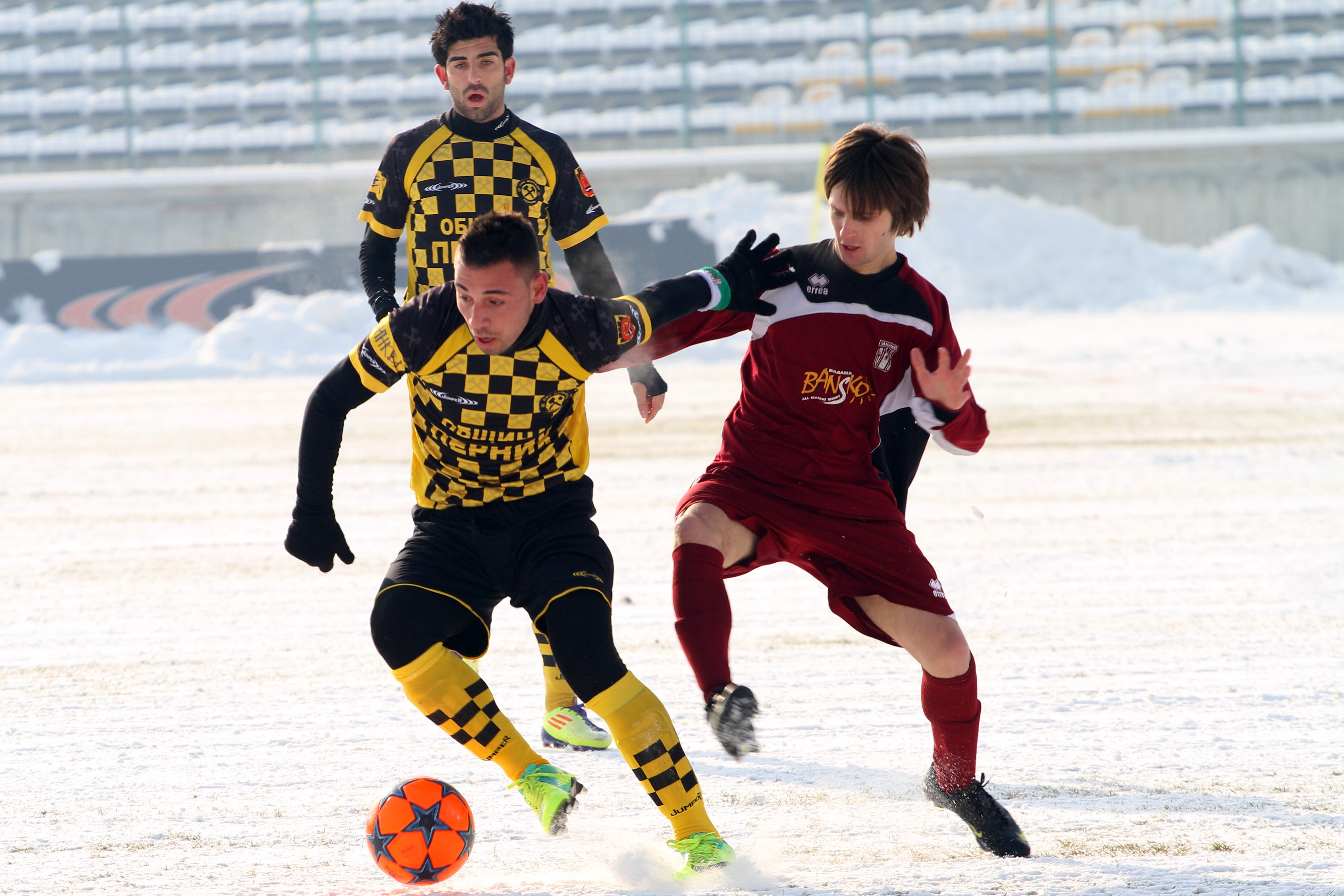 Farès Brahimi (born 22 October 1988 in Réghaïa, Algiers) is an Algerian football midfielder who currently plays for Minyor Pernik in the Bulgarian A PFG